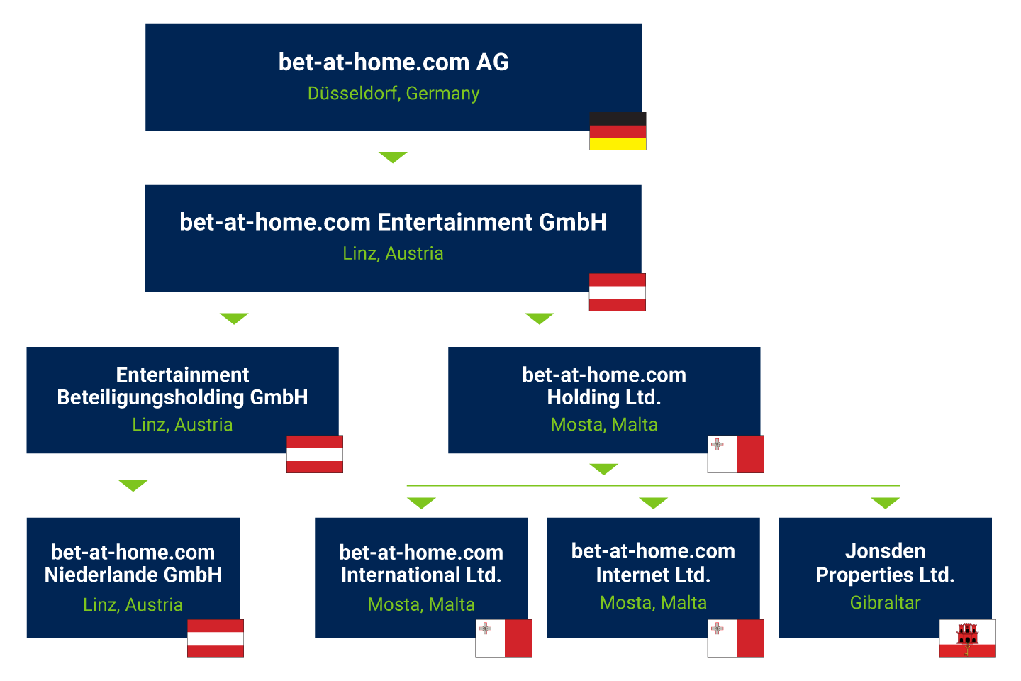 corporate structure_betathomecom_en